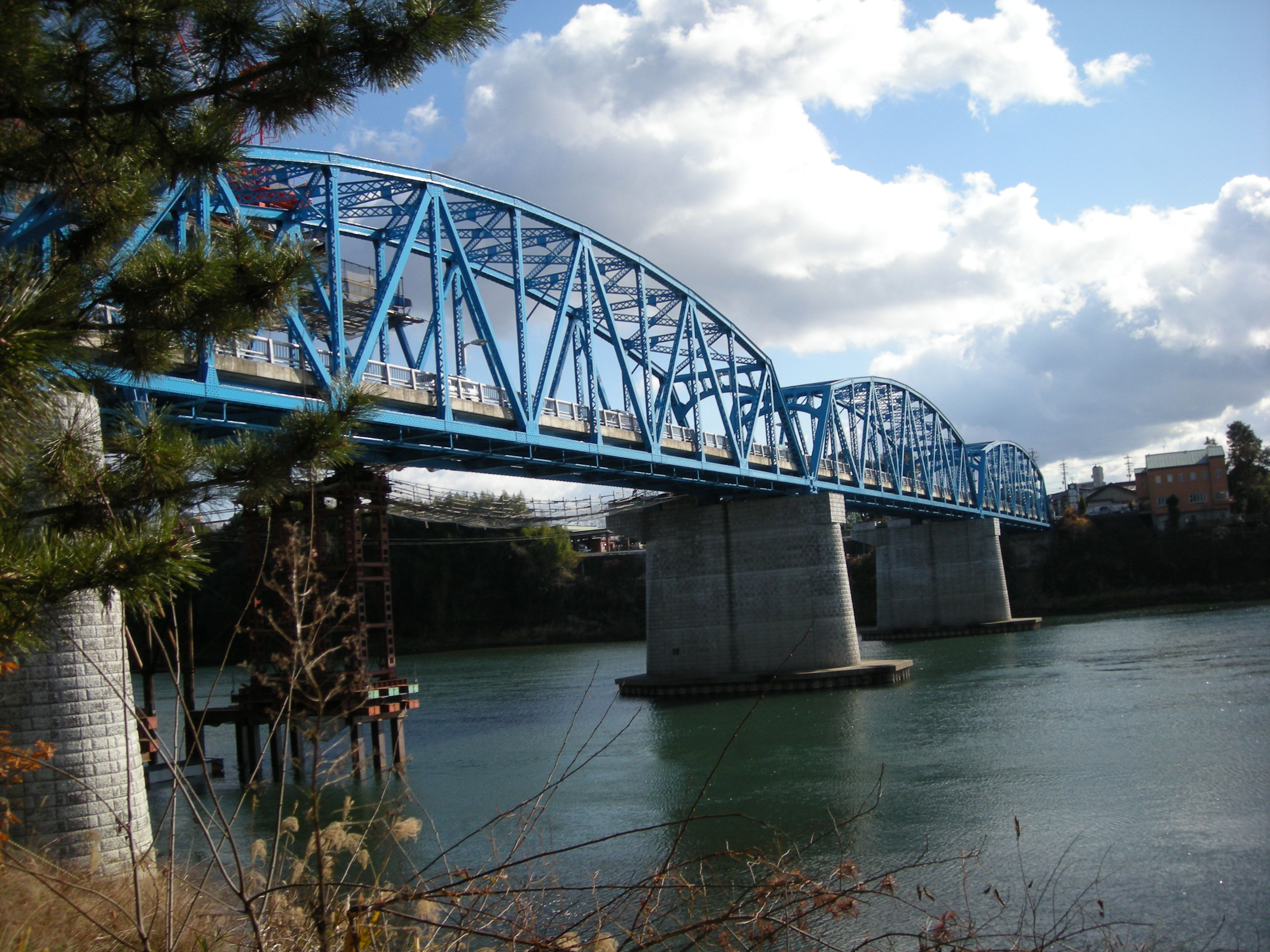 Ohotabashi bridge（太田橋）